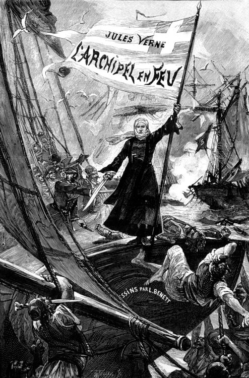 An illustration from Jules Verne's novel "The Archipelago on Fire" drawn by Léon Benett.